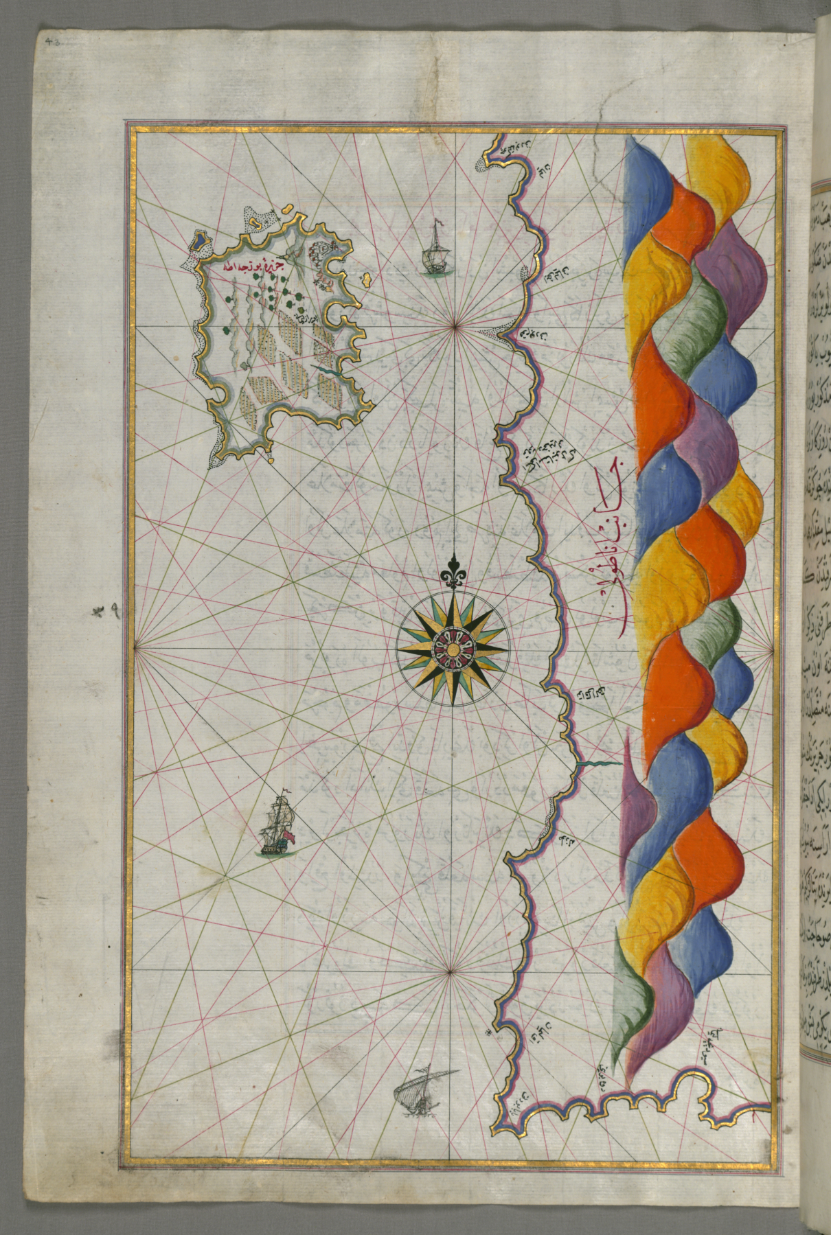 This folio from Walters manuscript W.658 contains a map of the island of Bozjah (Tenedos) off the coast of Anatolia.